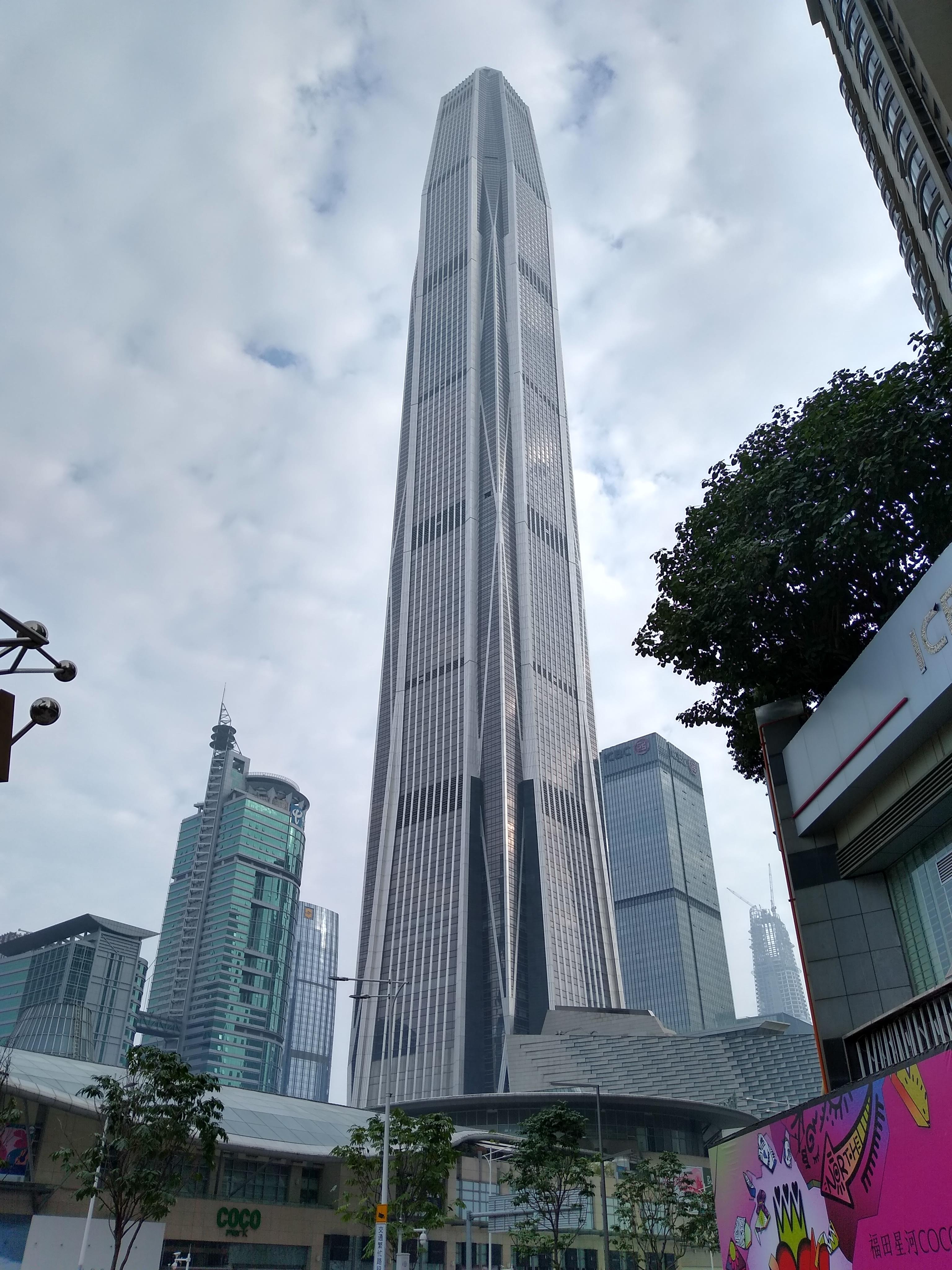 The Ping An Finance Center in Shenzhen, China.